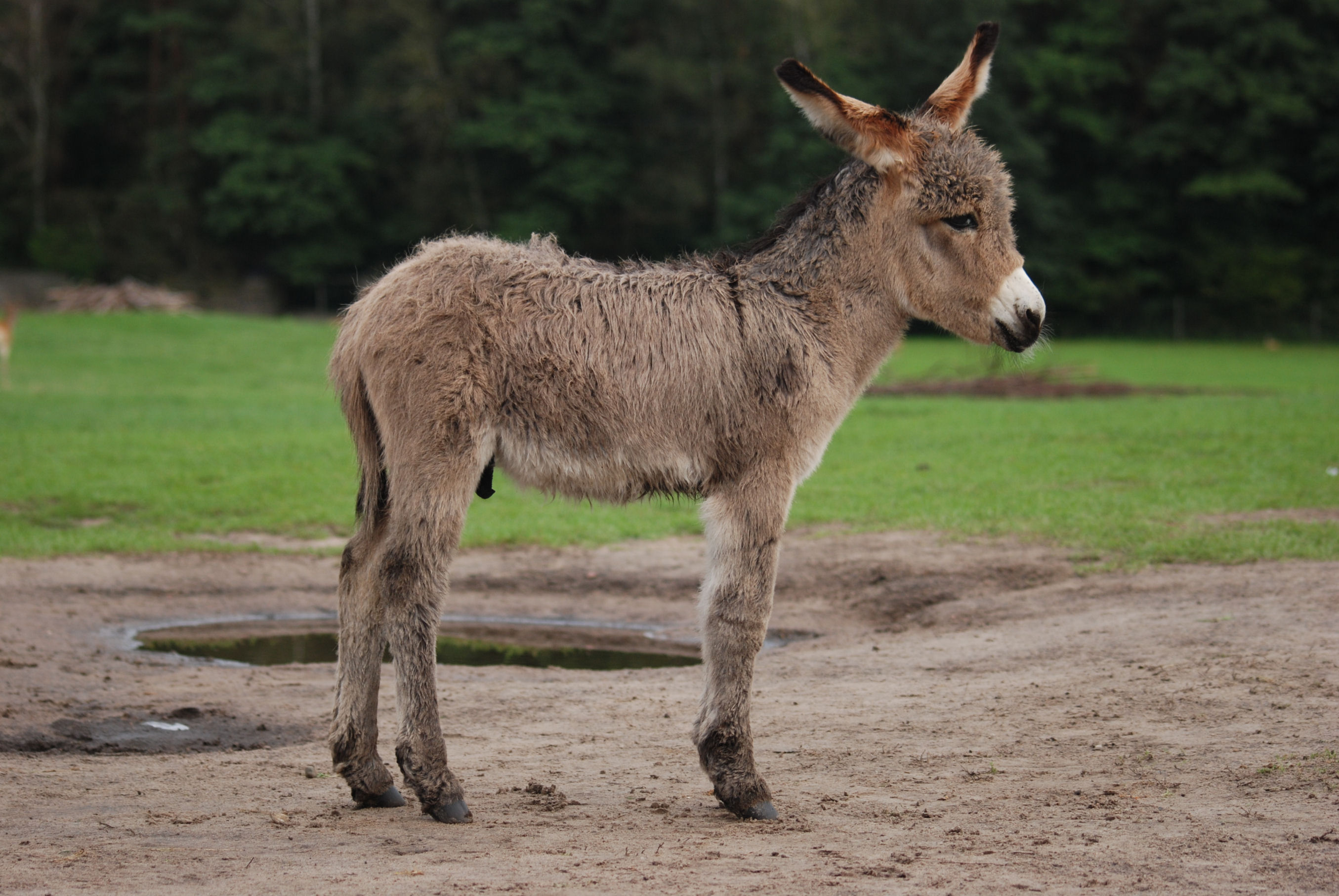 Three weeks old Equus asinus in Kadzidłowo, Poland.